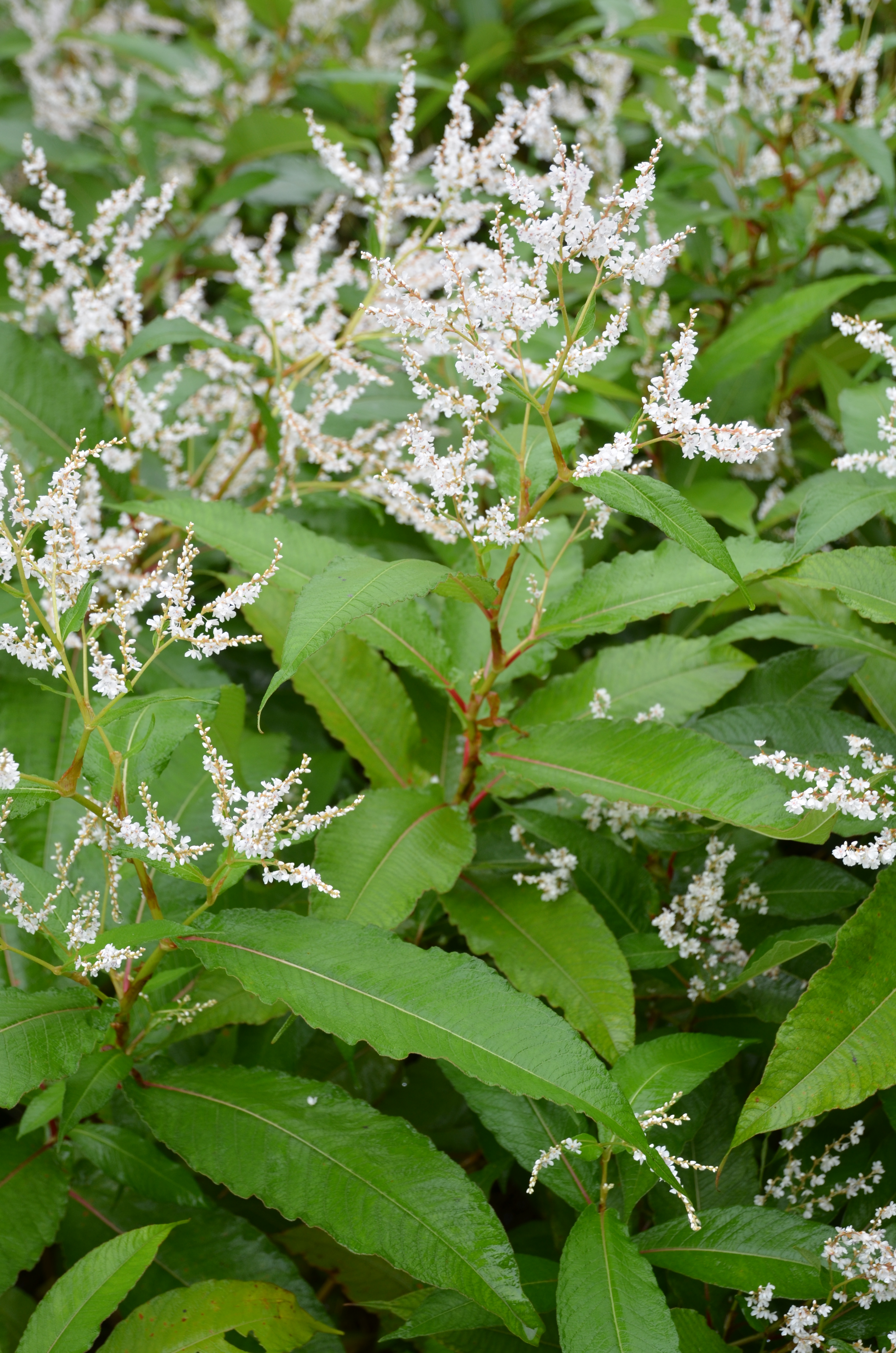 Persicaria wallichii (Polygonaceae), could be or become an invasive alien plant species in Europe. Synonyms = Polygonum polystachyum, Rubrivena polystachya, Aconogonum polystachyum Locality : Marcourt, Belgium